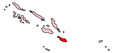 Map of the Solomon Islands showing Makira province. Made by User:Golbez.